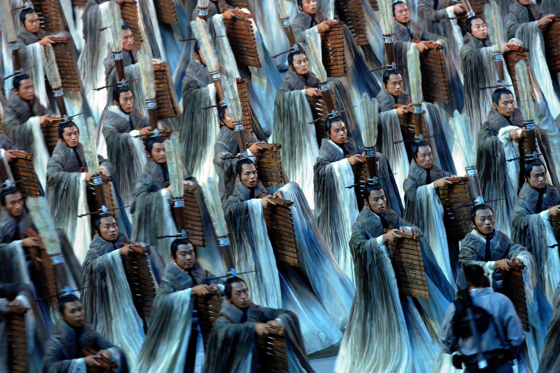 Disciples holding bamboo slips chant the much-quoted lines of Lunyu (The Analects): "All those within the four seas can be considered his brothers" during the Opening Ceremony of the Games of the XXIV Olympiad August 8th, 2008, at The Bird's Nest National Stadium in Beijing. Bamboo slips are the earliest book form of ancient China.